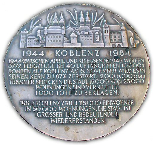 Memorial for the victims of bombing Koblenz in World War II